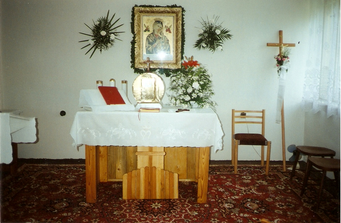 Albinov Mary Mother of God Chapel, Borough of Albinov, Town of Sečovce – altar in 1990s.